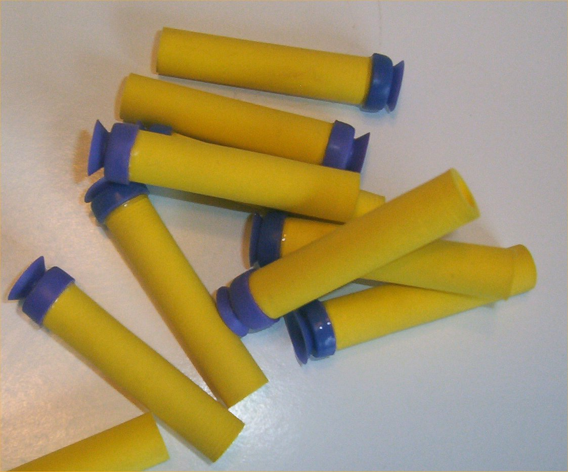 A picture, of Nerf Ammunition. Taken: 24/9/2006 Taken By: User: Dfrg.msc Uploaded on: 24/9/2006 Uploader: User: Dfrg.msc Feel free to use this image anywhere and in anyway, but please consult me first.